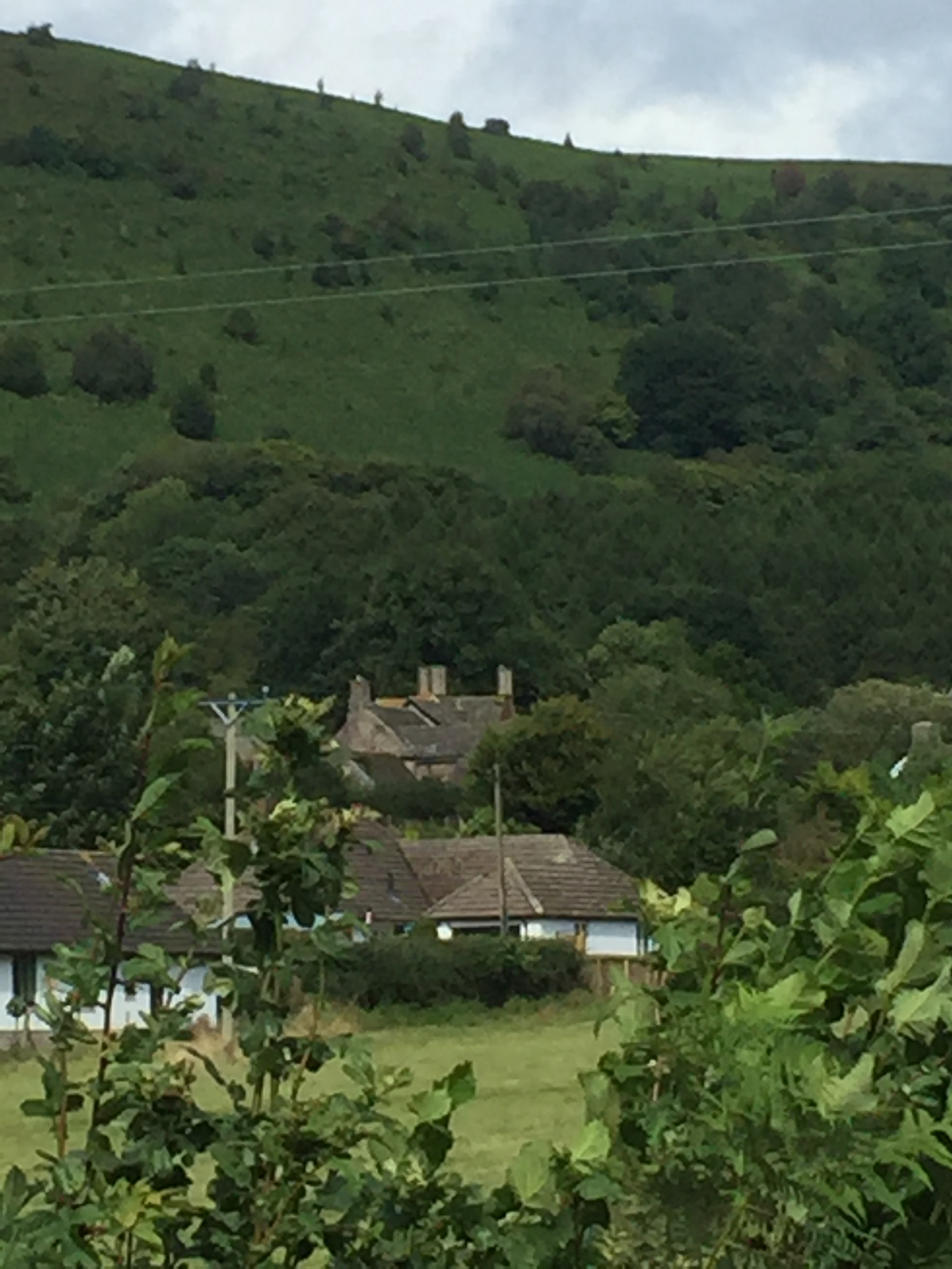 Pen-y-clawdd Court, Llanvihangel Crucorney, Monmouthshire A very inadequate shot of the chimney stacks of the Court, above the roofline of the bungalows. The best I could do and the best we have. Someone must be able to do better!